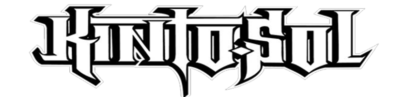 Kinto Sol official logo